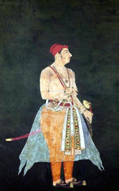 Jaswant Singh at an early age.